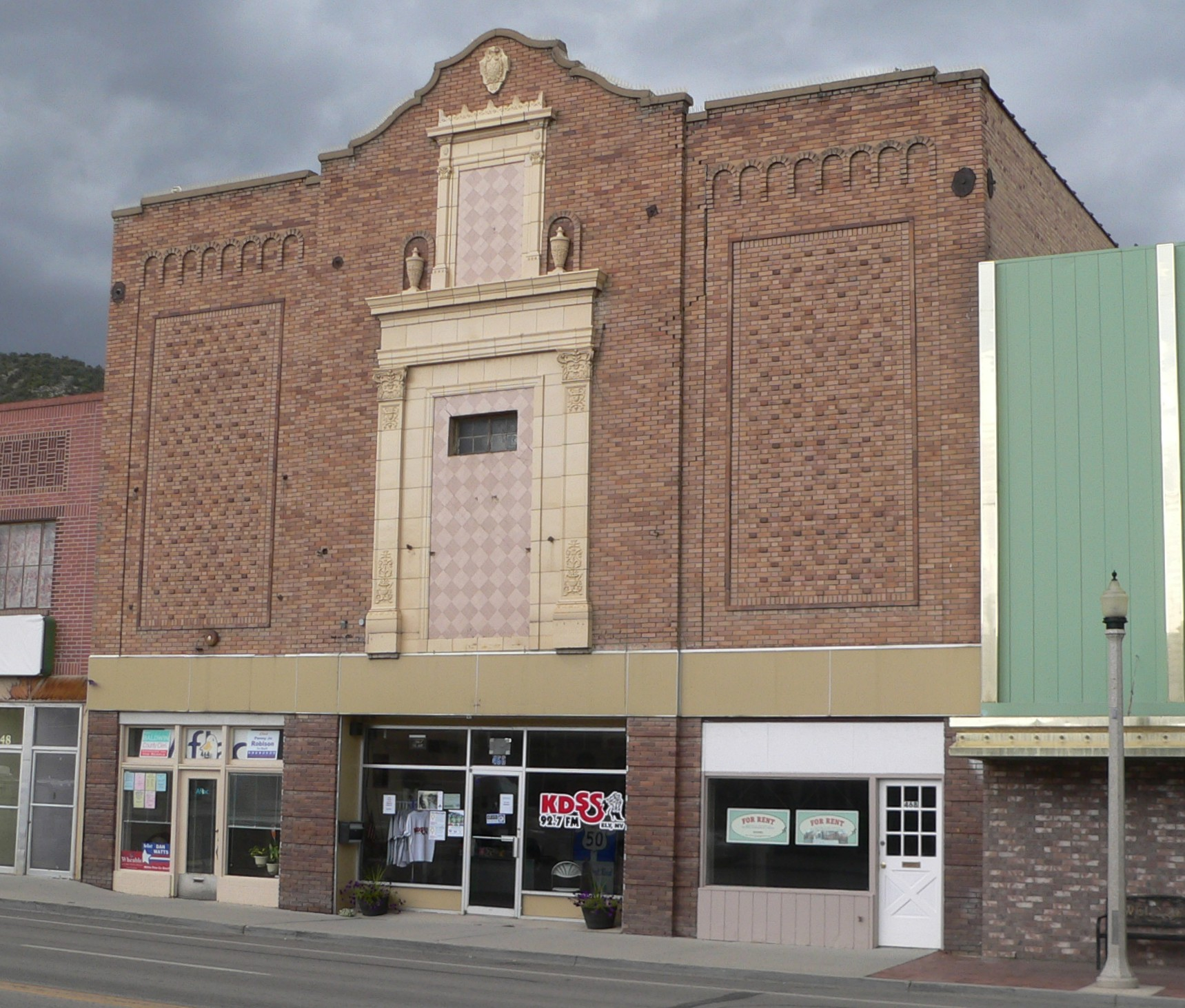 Capital Theater building, located at 464–468 Aultman Street in Ely, Nevada; seen from the southeast, across Aultman.